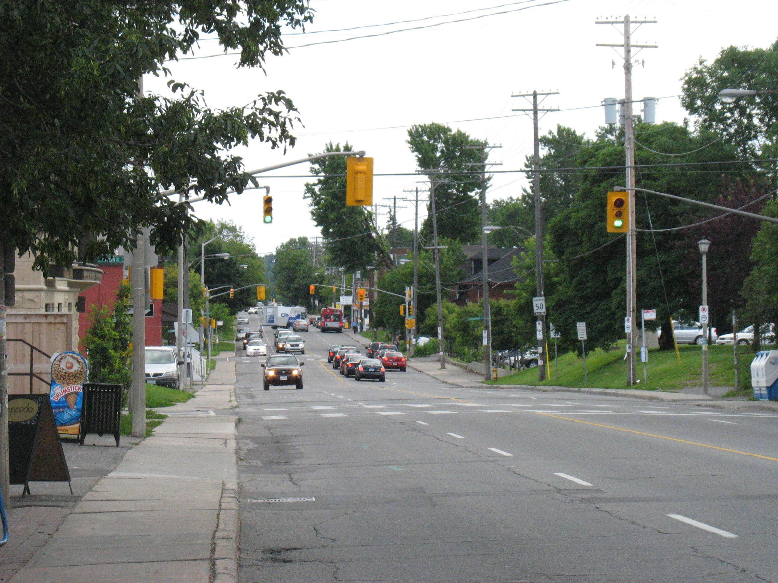 Main Street at Lees Avenue, facing South. Ottawa.